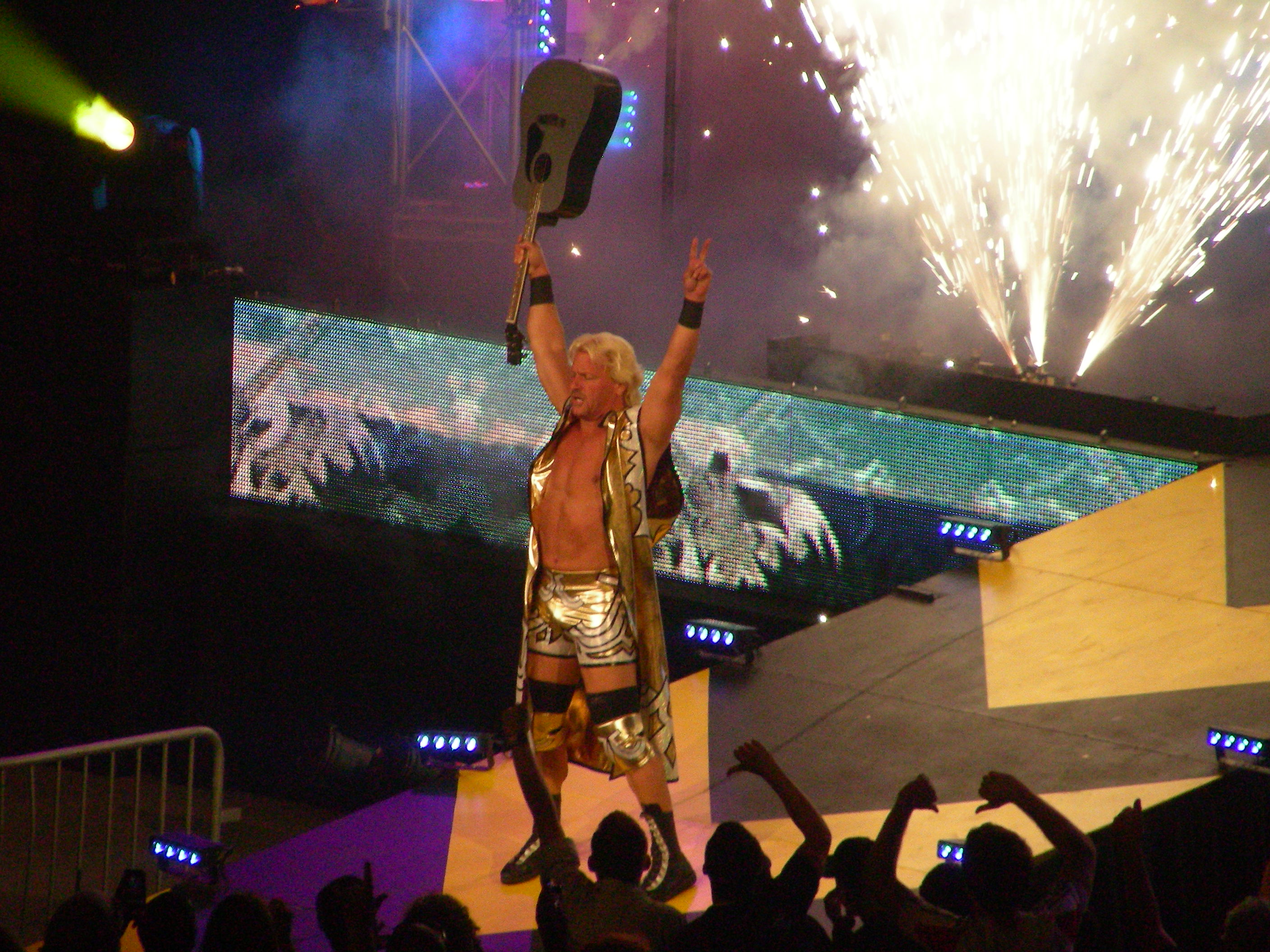 Enterance of the 'King of the Moutain' JEFF JARRETT!